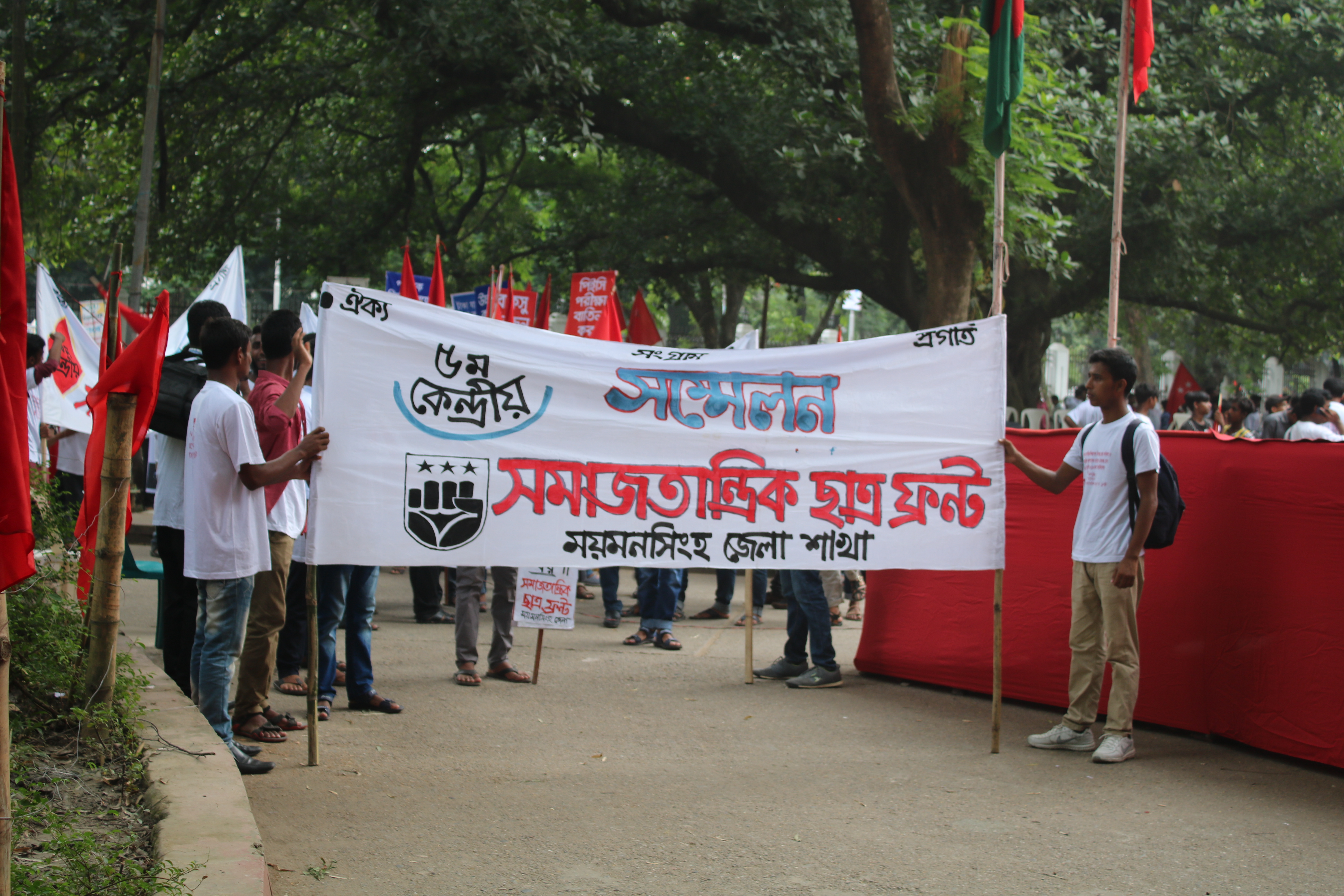 The Socialist Students' Front (SSF) is a progressive revolutionary students' organization in Bangladesh. This organization is one of the largest leftist students' organization in the country.